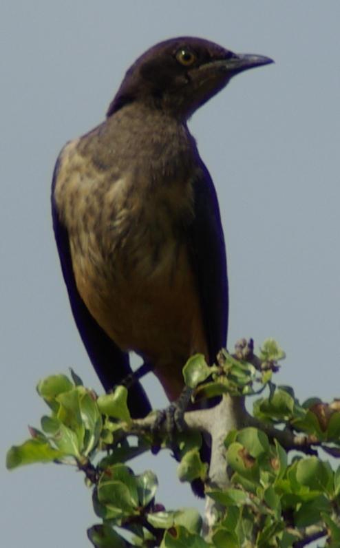 Immature Hildebrandt's Starling, Lamprotornis hildebrandti, Mara Serena Lodge, Kenya. Thanks to JMK for identification. The time stamp is 10 hours too early.